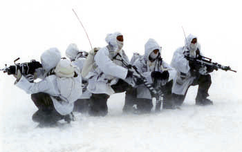 Alpinis on exercise; Italian Army.